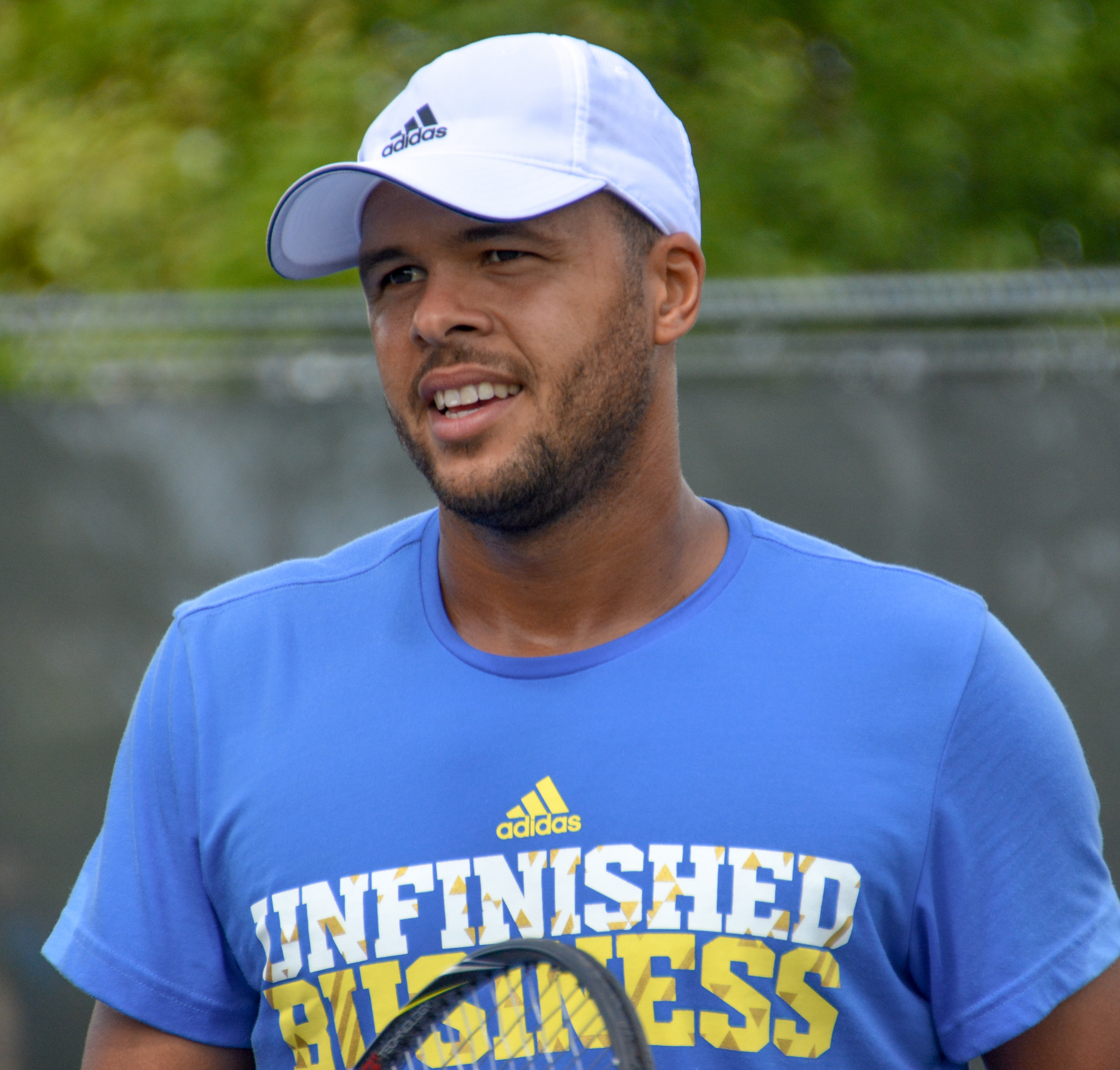 On the practice court at Coupe Rogers. Montreal 2015.